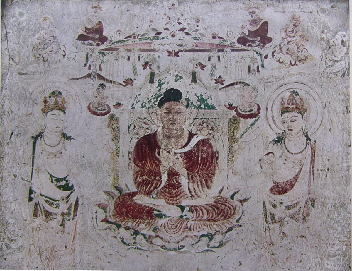 Upper half part of Amidhaba Paradise, wall painting of Golden hall of Horyuji, Colour on fresco Secco, late 7th century, 266cm wide, Photo before the fire which severely damaged most wall paintings in 1949